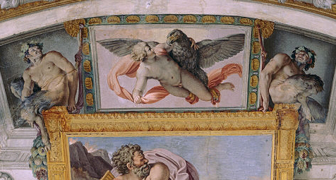 Rape of Ganymede. Annibale Carracci. The Loves of the Gods. Palazzo Farnese, Rome